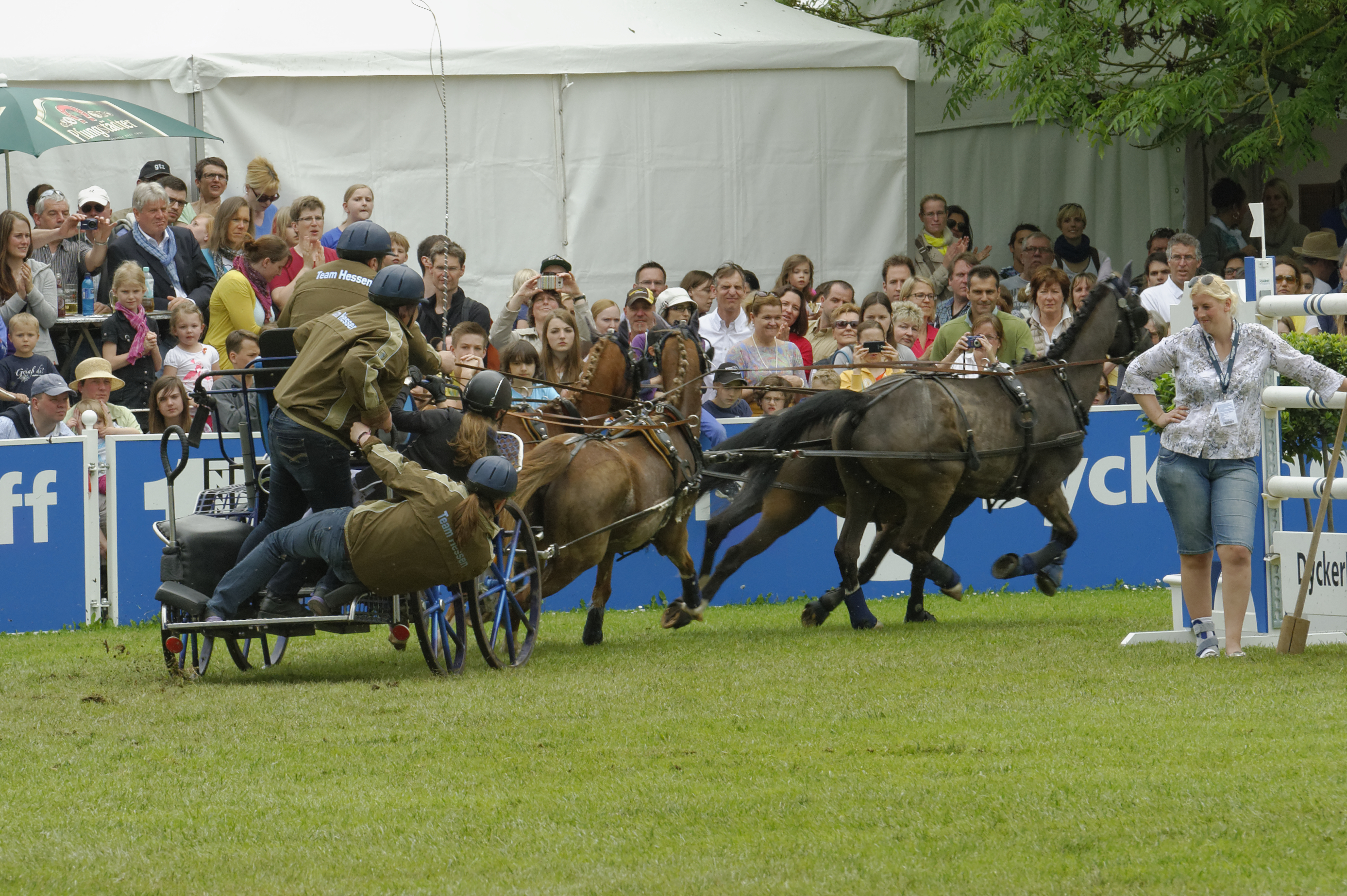 Internationales Pfingstturnier Wiesbaden 2013 The making of this document was supported by the Community-Budget of Wikimedia Germany.